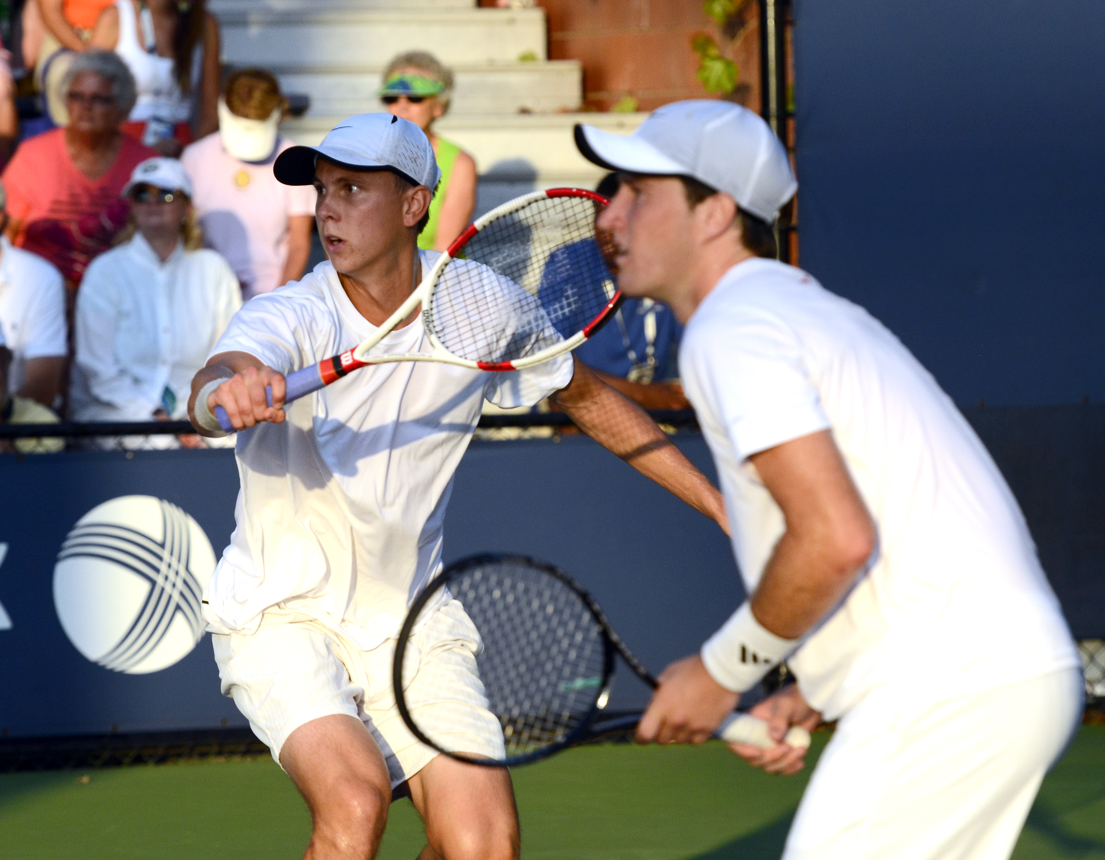 August 26, 2014 Queens, NY Michael Llodra and Nicolas Mahut (FRA) def. Peter Kobelt and Hunter Reese (USA)